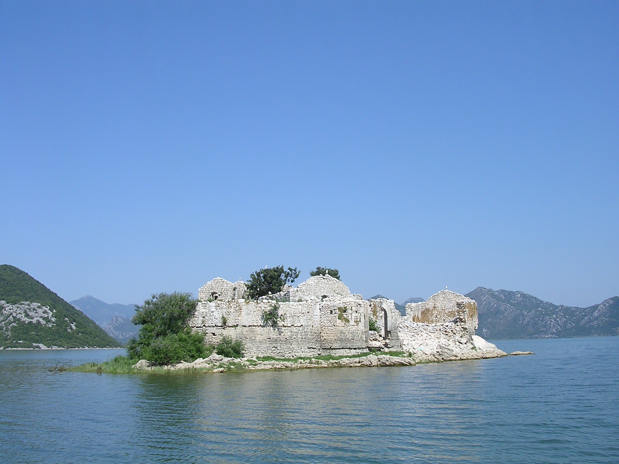 Fortress Grmožur in Skadar Lake